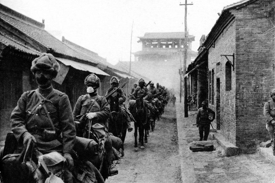 IJA cavalry in the city of Linfen, China, February 1938